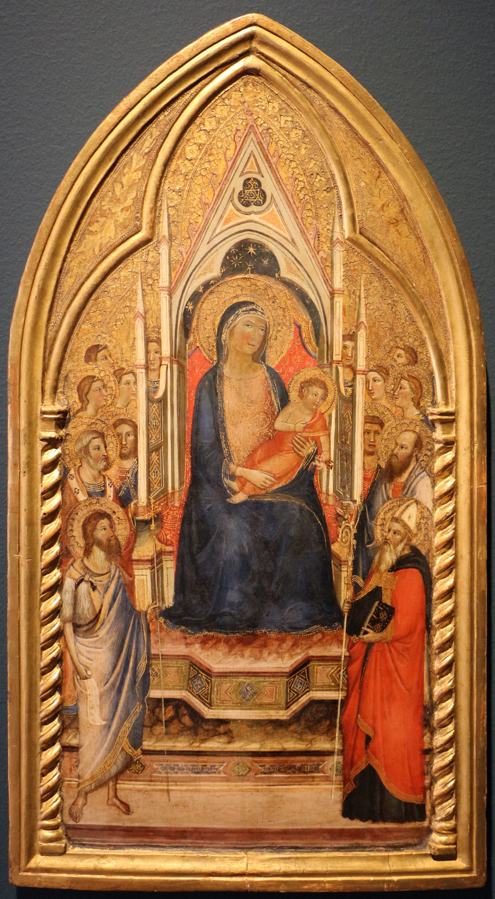 Italian paintings in the Bonnefantenmuseum